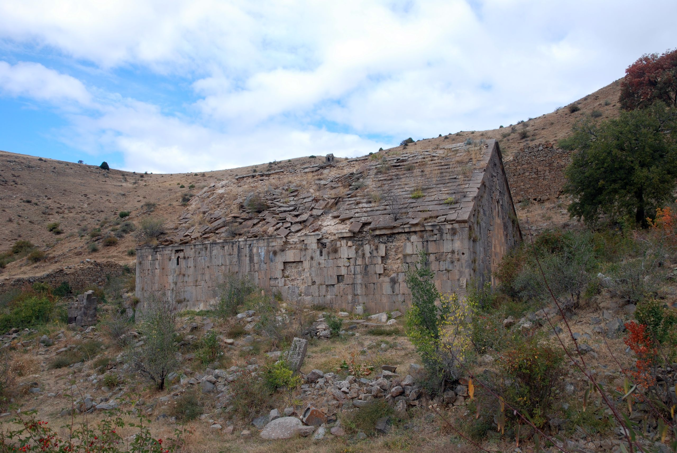 Shativank, from south